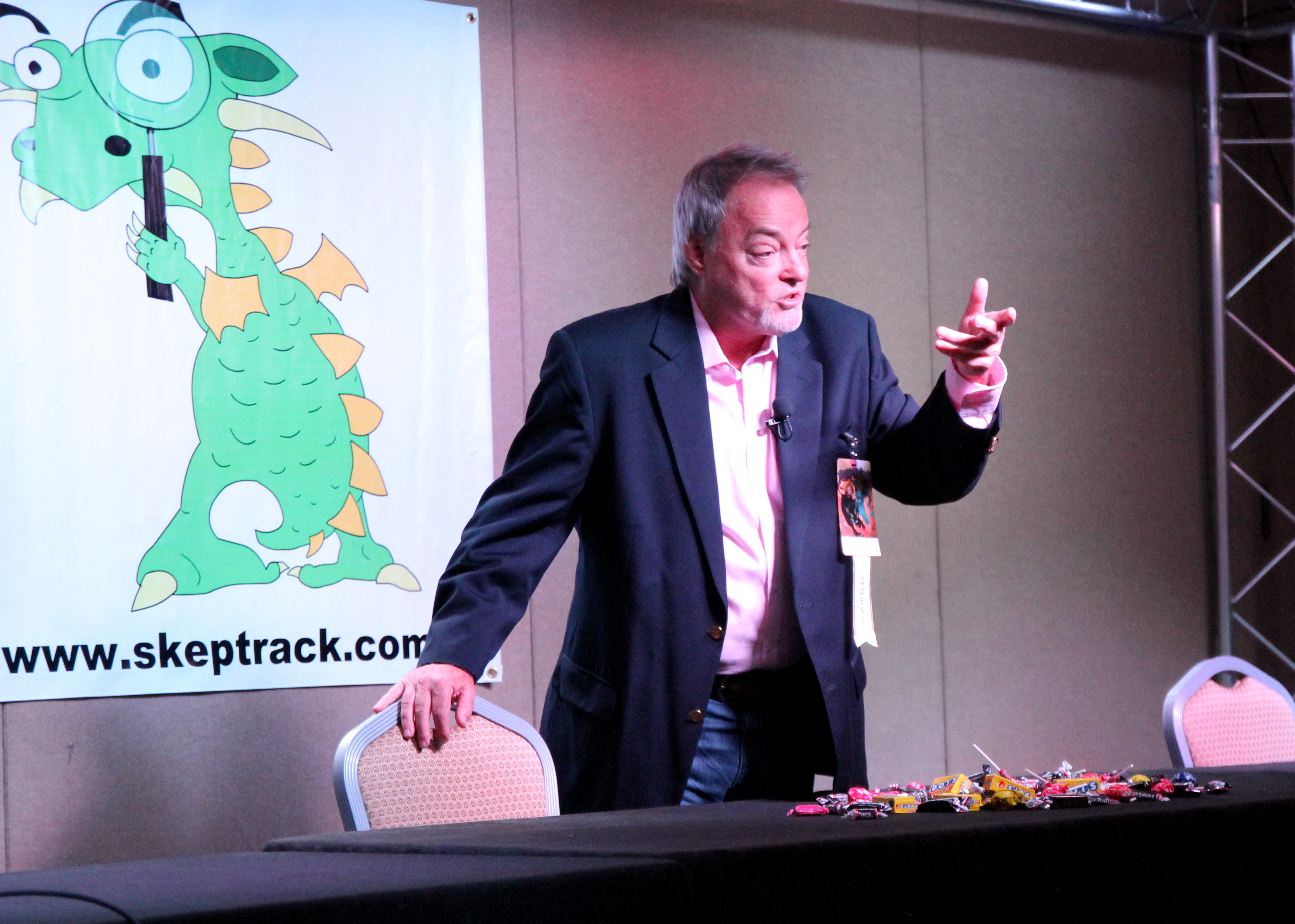 Mark Edward at Dragon*Con 2012 Skeptic Track